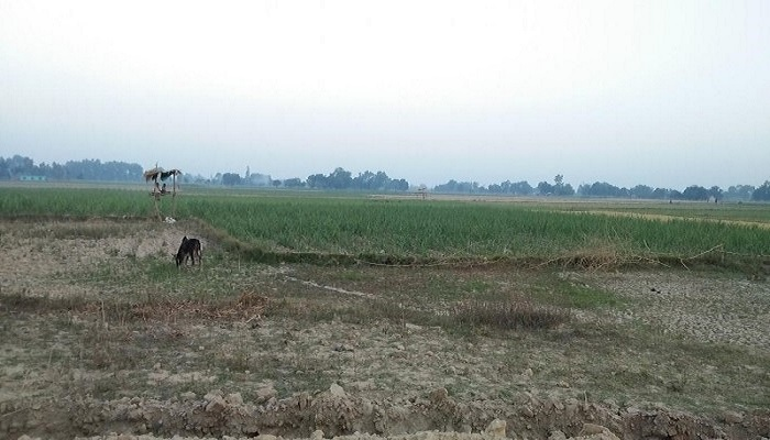 Laljhadi